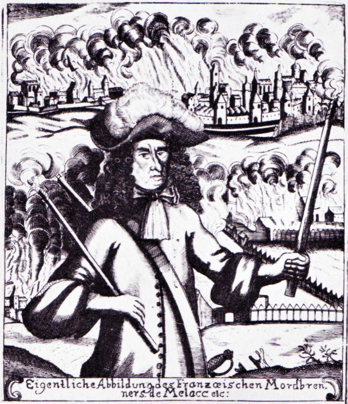 Ezéchiel du Mas, comte de Mélac (* ca. 1630; † 10. Mai 1704), french general, german engraving